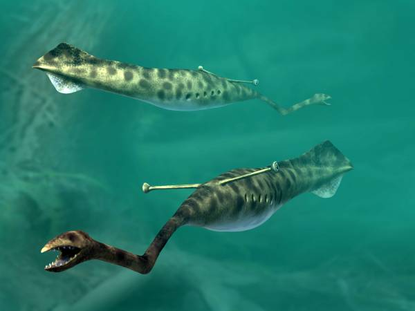 Tullimonstrum gregarium